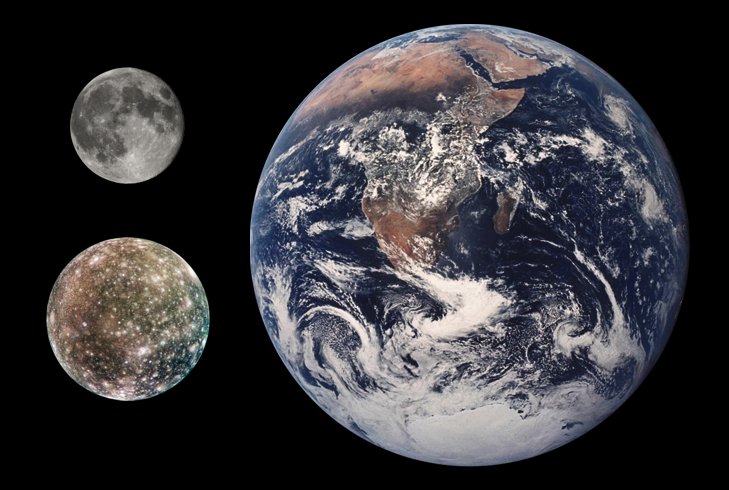 Diameter comparison of the Jovian moon Callisto, Moon, and Earth. Scale: Approximately 29 km per pixel.